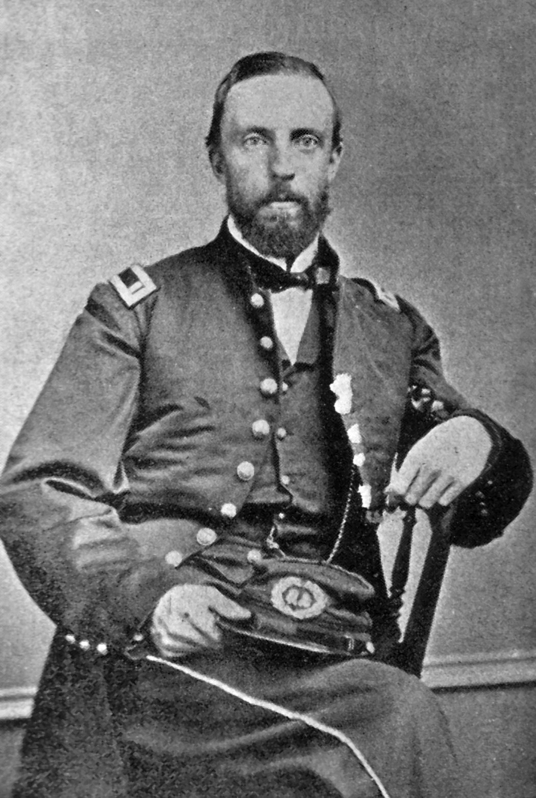 American surgeon and naturalist James Graham Cooper (1830-1902). Cooper in Army uniform as member of Pacific Railroad Survey to California.